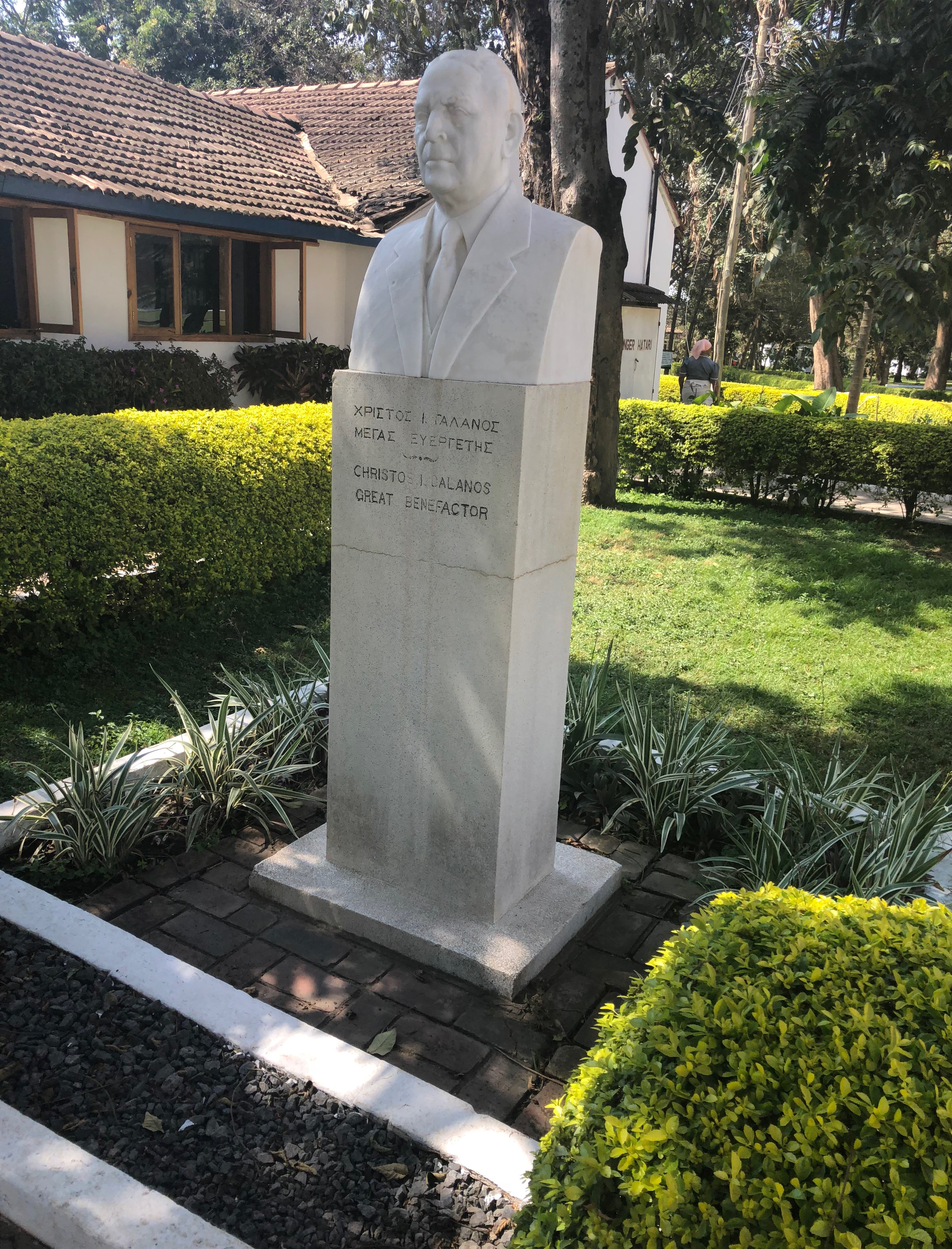 SCIS- Christos Galanos.